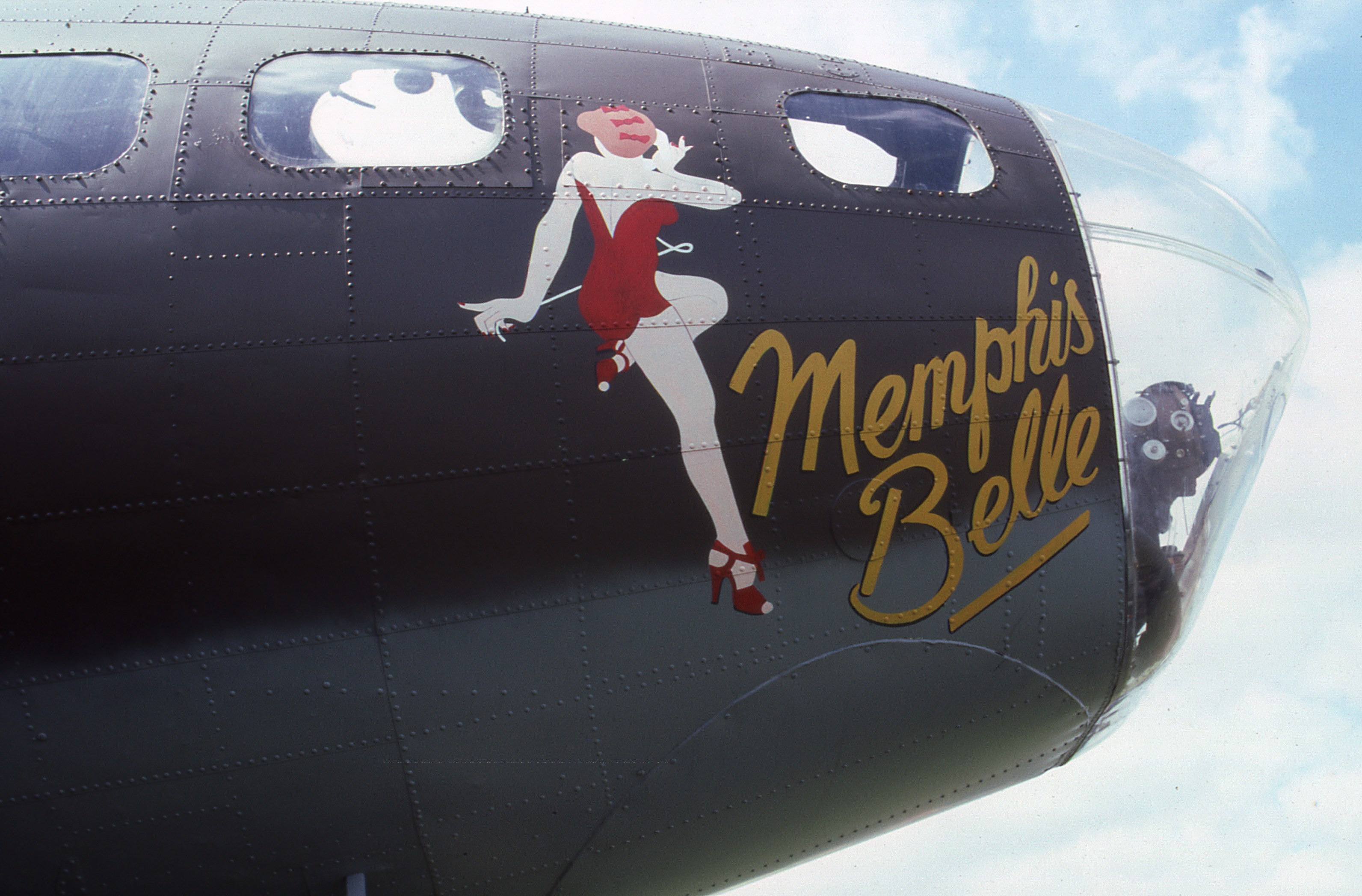 B-17 Memphis Belle nose art, Hollywood version.